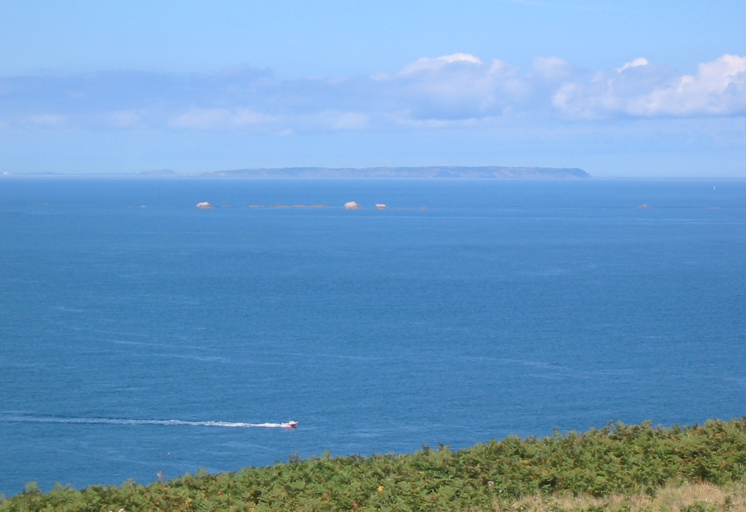 Sark and Pierres de Lecq (Paternosters) at high tide - three exposed rocks from left to right La Vouêtaîthe, La Grôsse, L'Êtaîthe